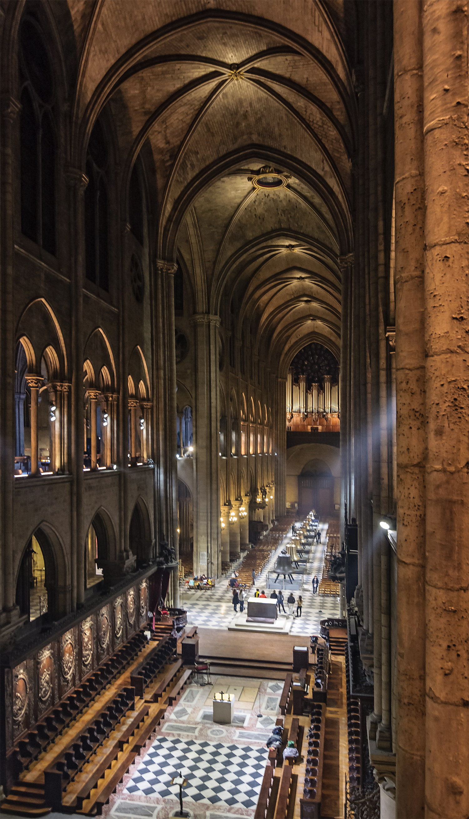 The nave of Notre Dame de Paris, with the new bells on public display in February 2013, before being hung in the towers of the cathedral.